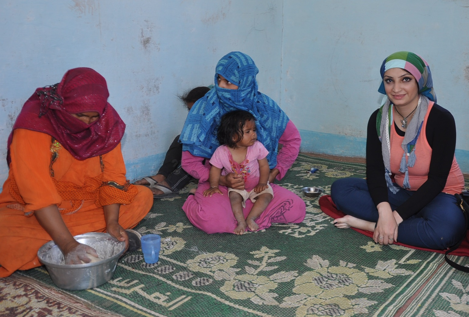 بسمة فؤاد مع المرأه البدويه